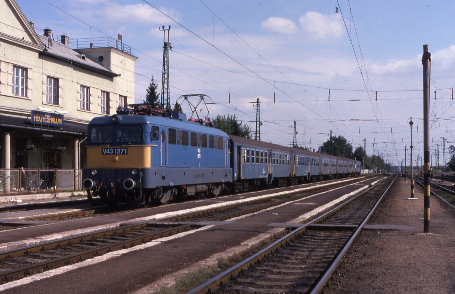 At the border station on the main Budapest to Wien line, V43 1271 is seen on train 9424, 13:45 Gyõr to Hegyeshalom. Photo taken 18 September 1994.